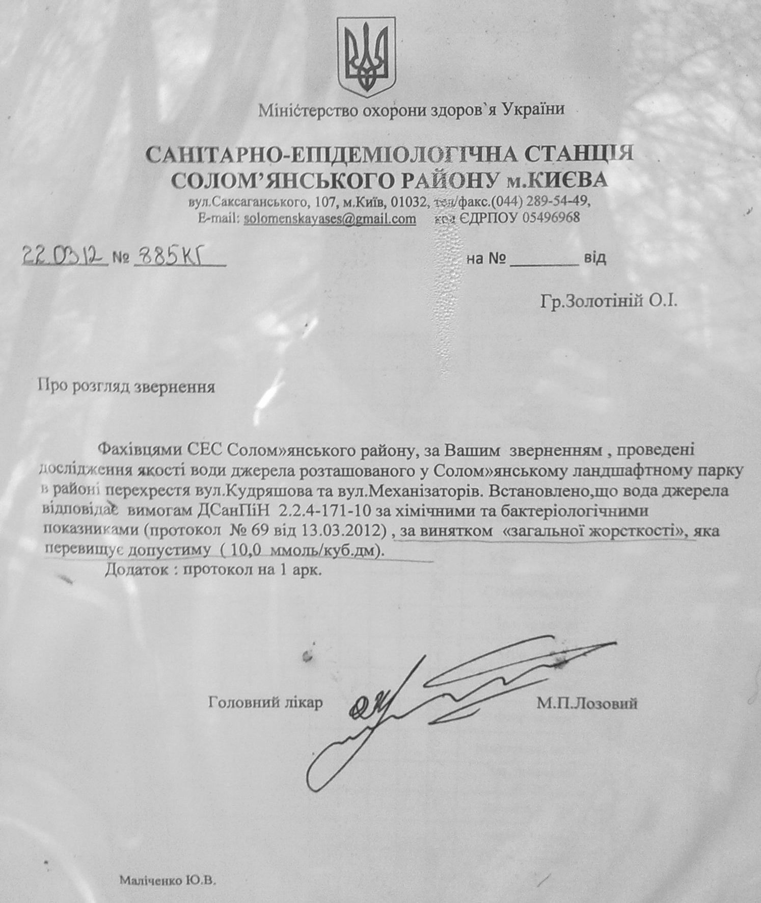 Mokra river, water quality, SES 13.03.2012